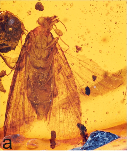 Antiquatortia histuroides Brown & Baixeras, AMNH DR8-43. Dominican amber. a. Ventral view. Length of forewing 7 mm.